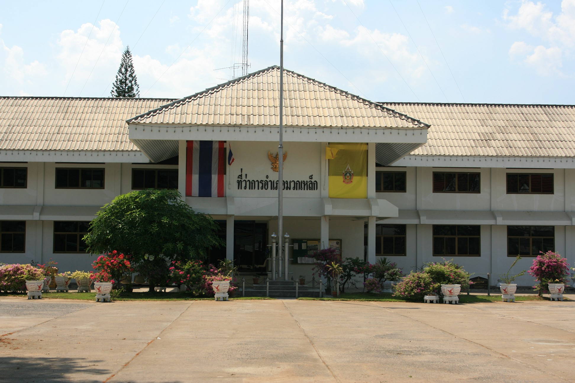 District office of Muak Lek, Saraburi, Thailand